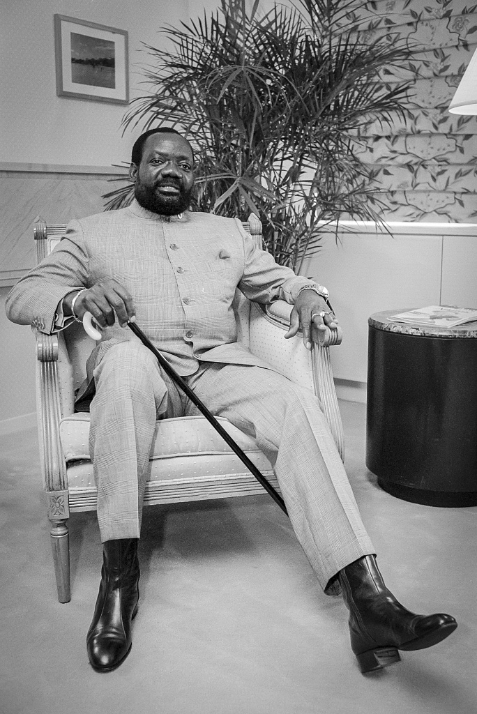 Johnas Savimbi, leader of Unita, the Angolan Rebels.